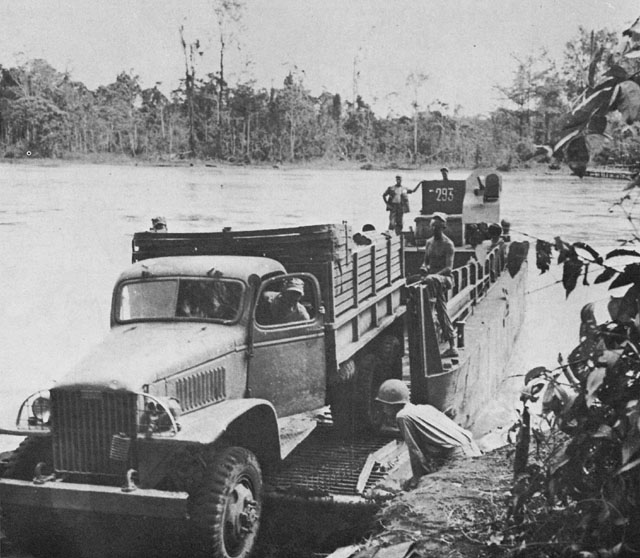 LCM FERRY across mouth of Tor River, looking west, ca. 30th May 1944